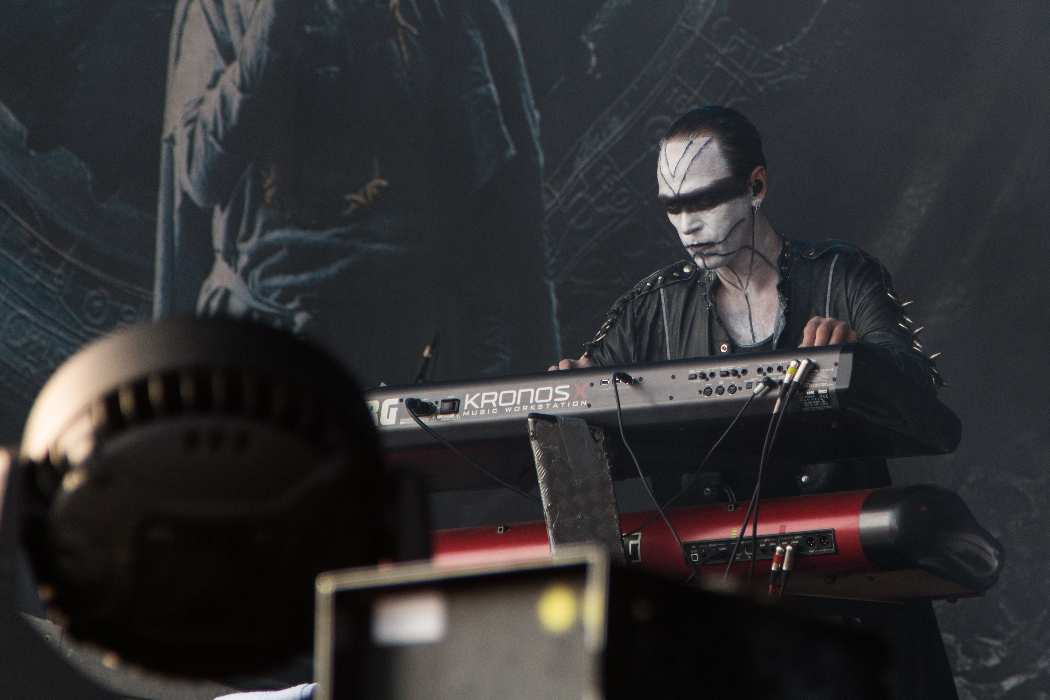 Geir Bratland from Dimmu Borgir at the See-Rock Festival 2014